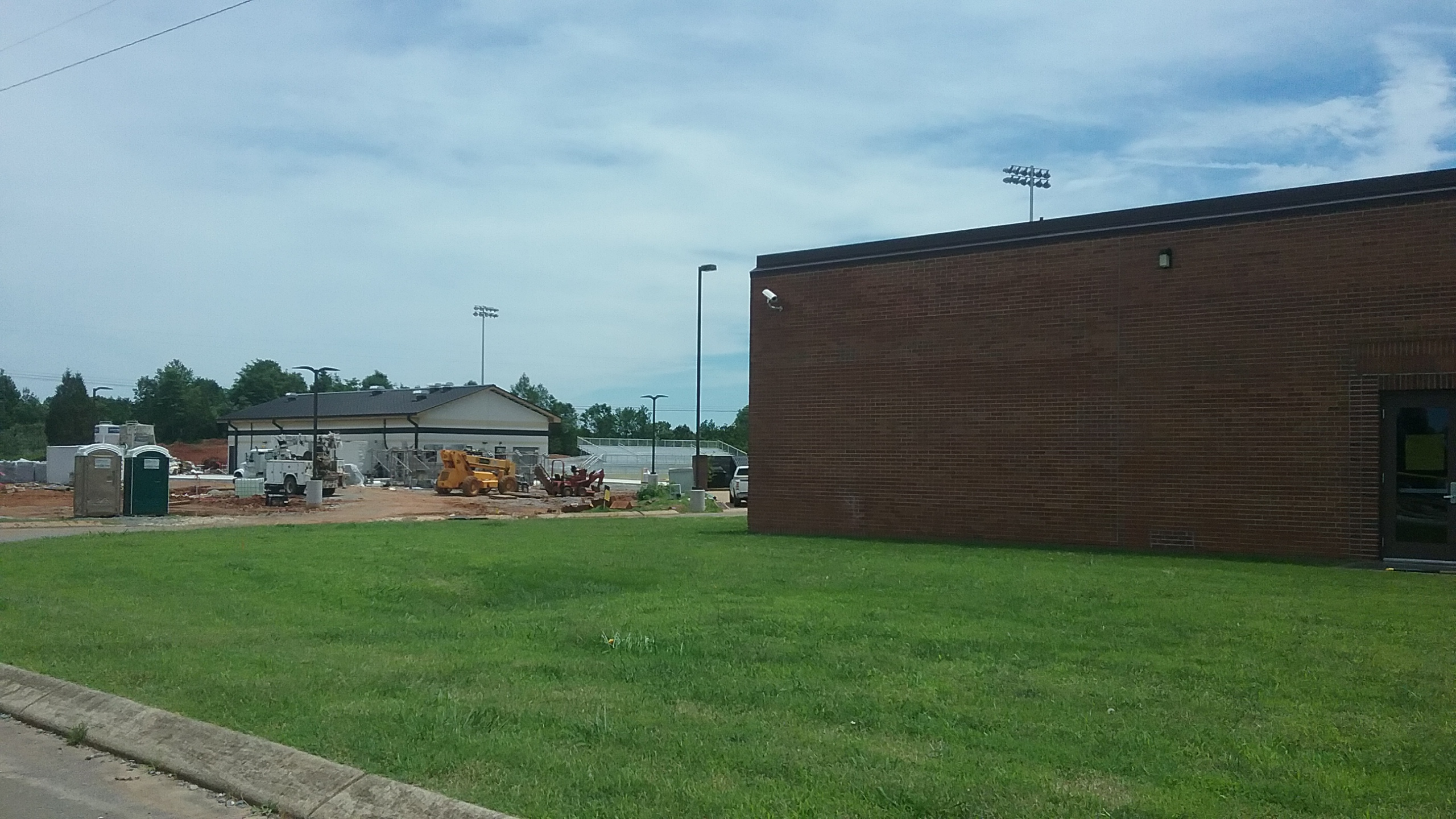 The image of The Tennessee Springfield High School Football Field Being Built was taken on June 24, 2017